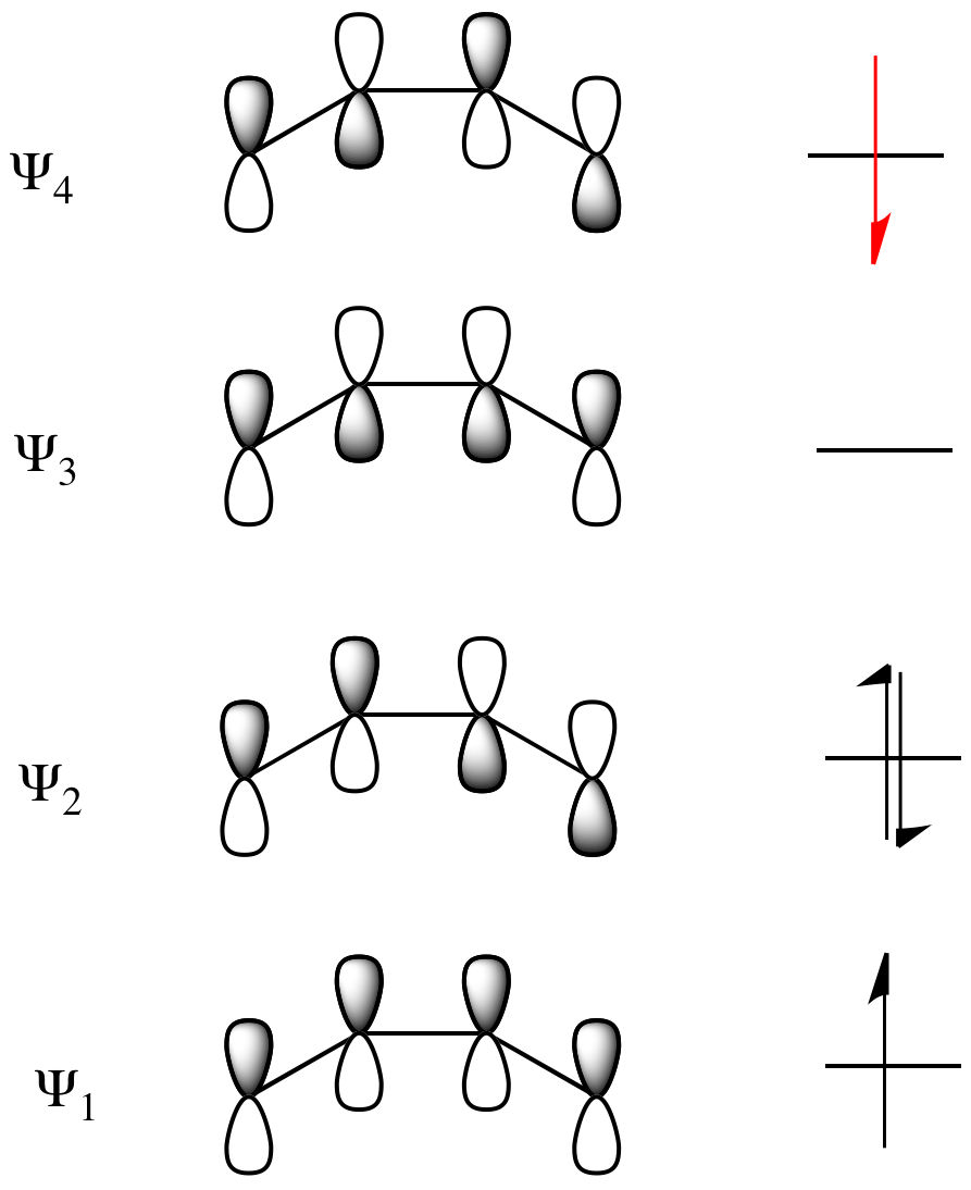 A high-energy excited state of butadiene.